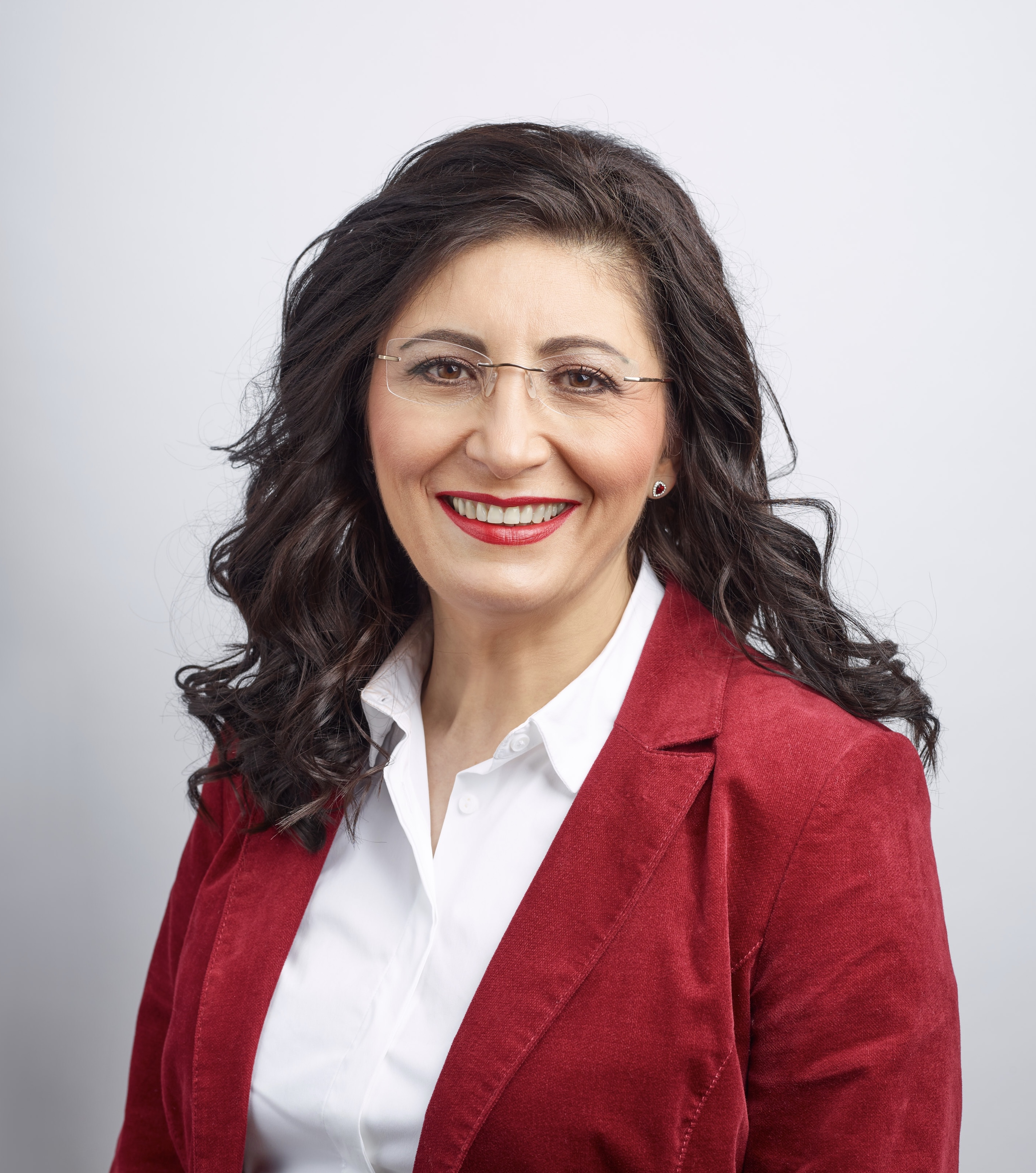 Nezahat Baradari, North Rhine-Westphalian politician (SPD) and member of the German Bundestag